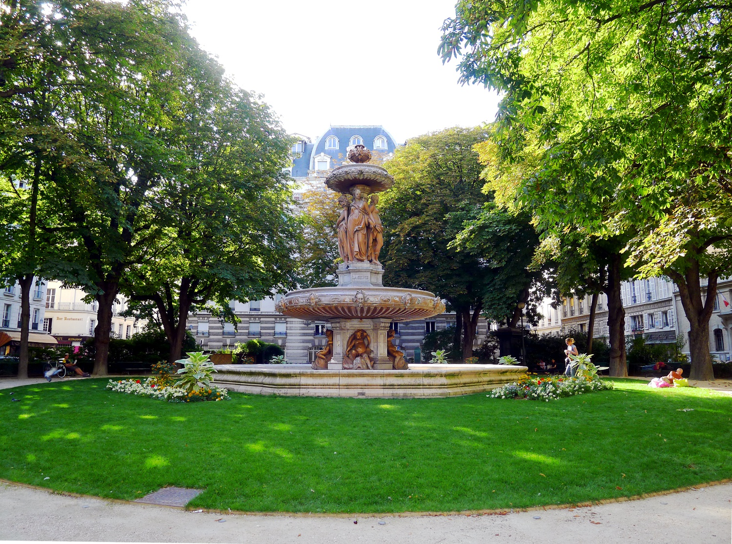 Louvois Square and Louvois fontaine - Paris